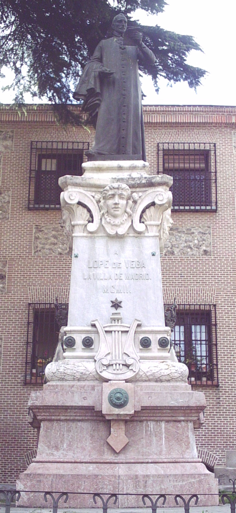 Monument to Lope de Vega (1562–1635) in Madrid (Spain), inaugurated in 1902. Pedestal was made of stone, marble and bronze by José López Salaberry. Statue was made of bronze by Mateo Inurria (1867–1924). Measurements: whole monument 7.5 x 2.1 x 2.1 metres; statue 3 x 1.2 x 0.7 m.; pedestal 4.5 x 2.1 x 2.1 m.